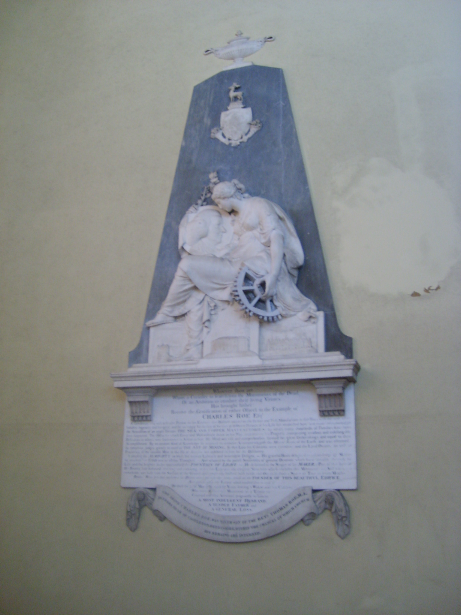 Monument of Charles Roe (1715 - 1781) inside Christ Church in Macclesfield.